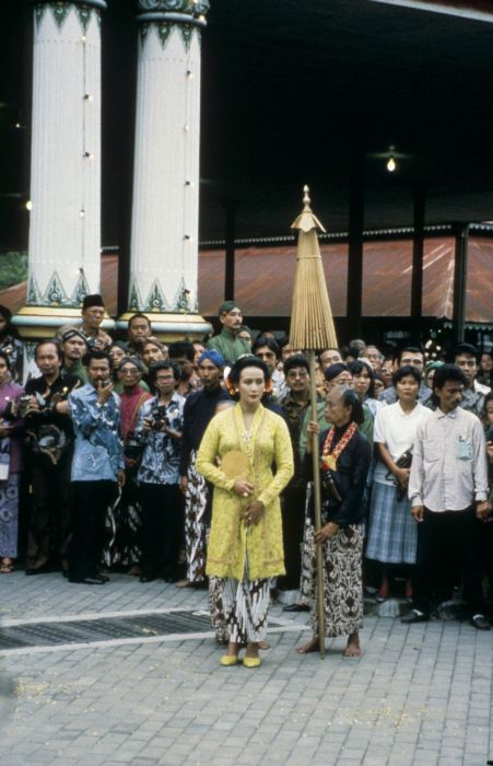 Wife of Sultan Hamengku Buwana X during his coronation in the kraton